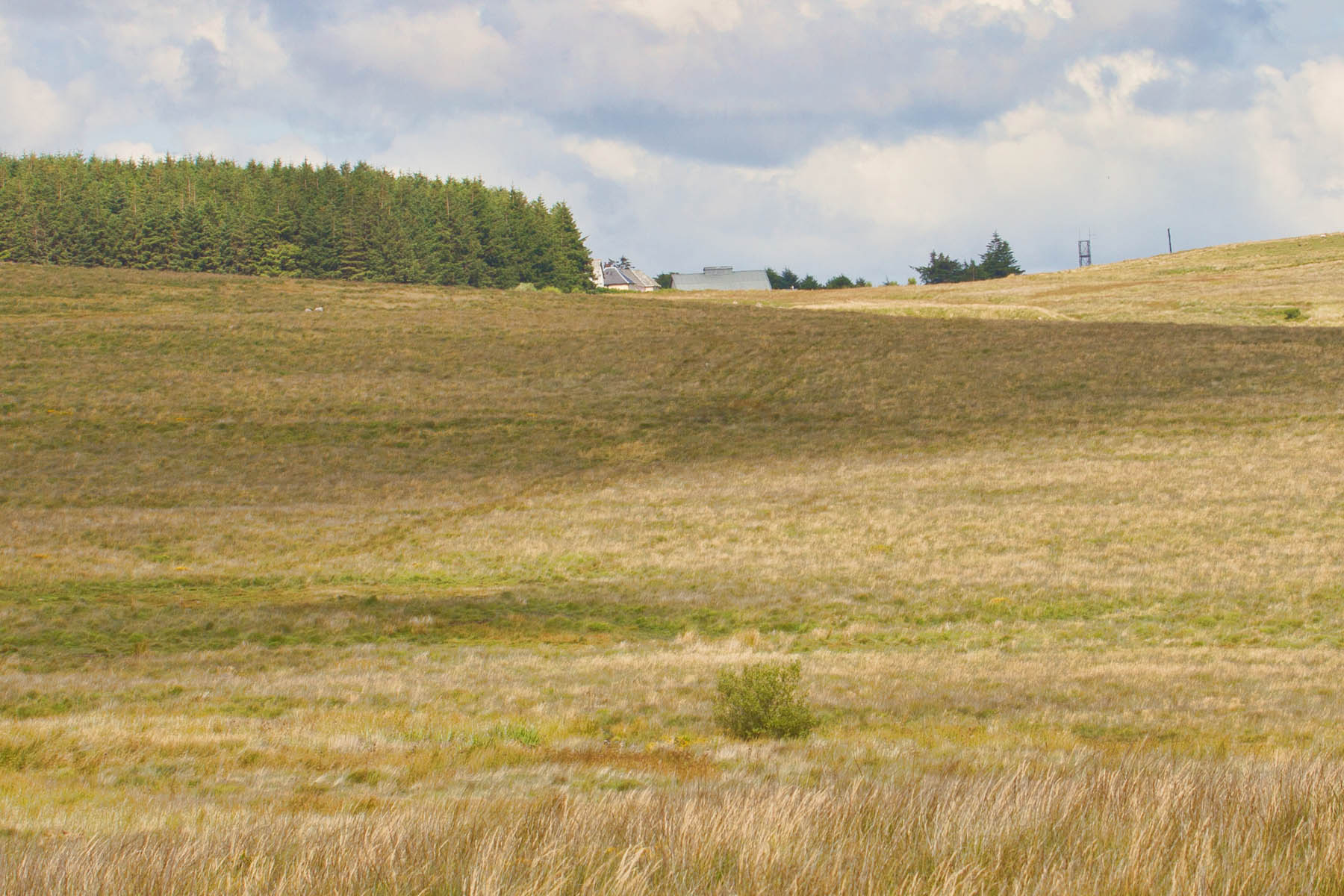 Walkhampton Common pylons after undergrounding